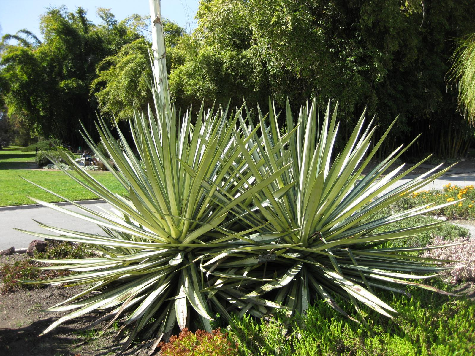 Photographed at Huntington Gardens (Los Angeles, California) in March